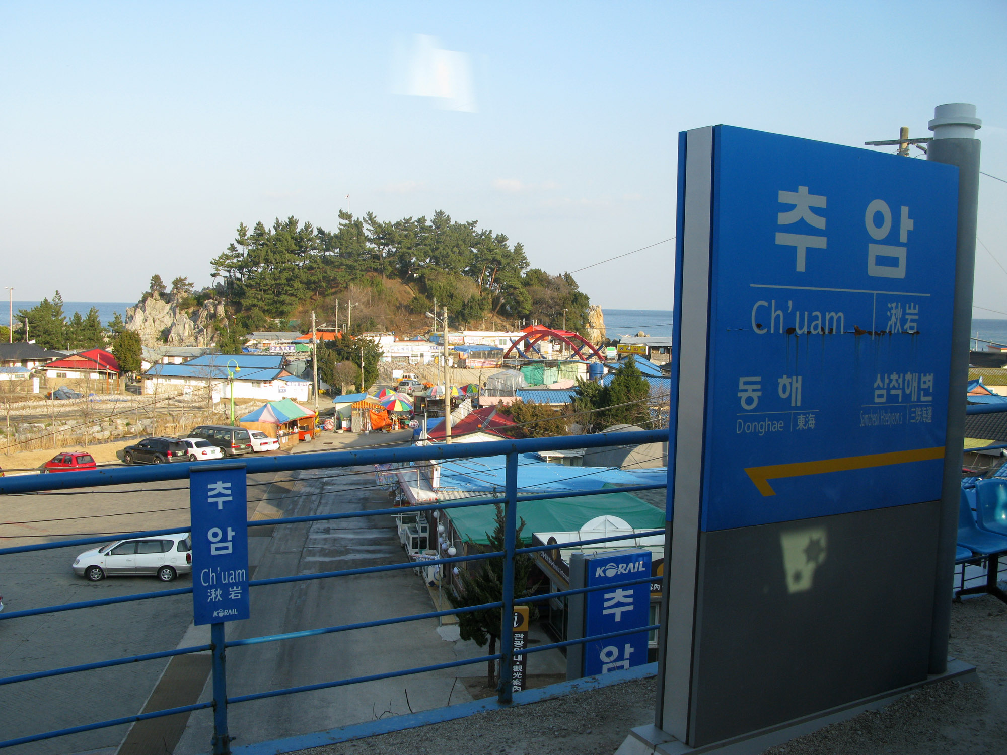 Samcheok Line Chuam Station Panel